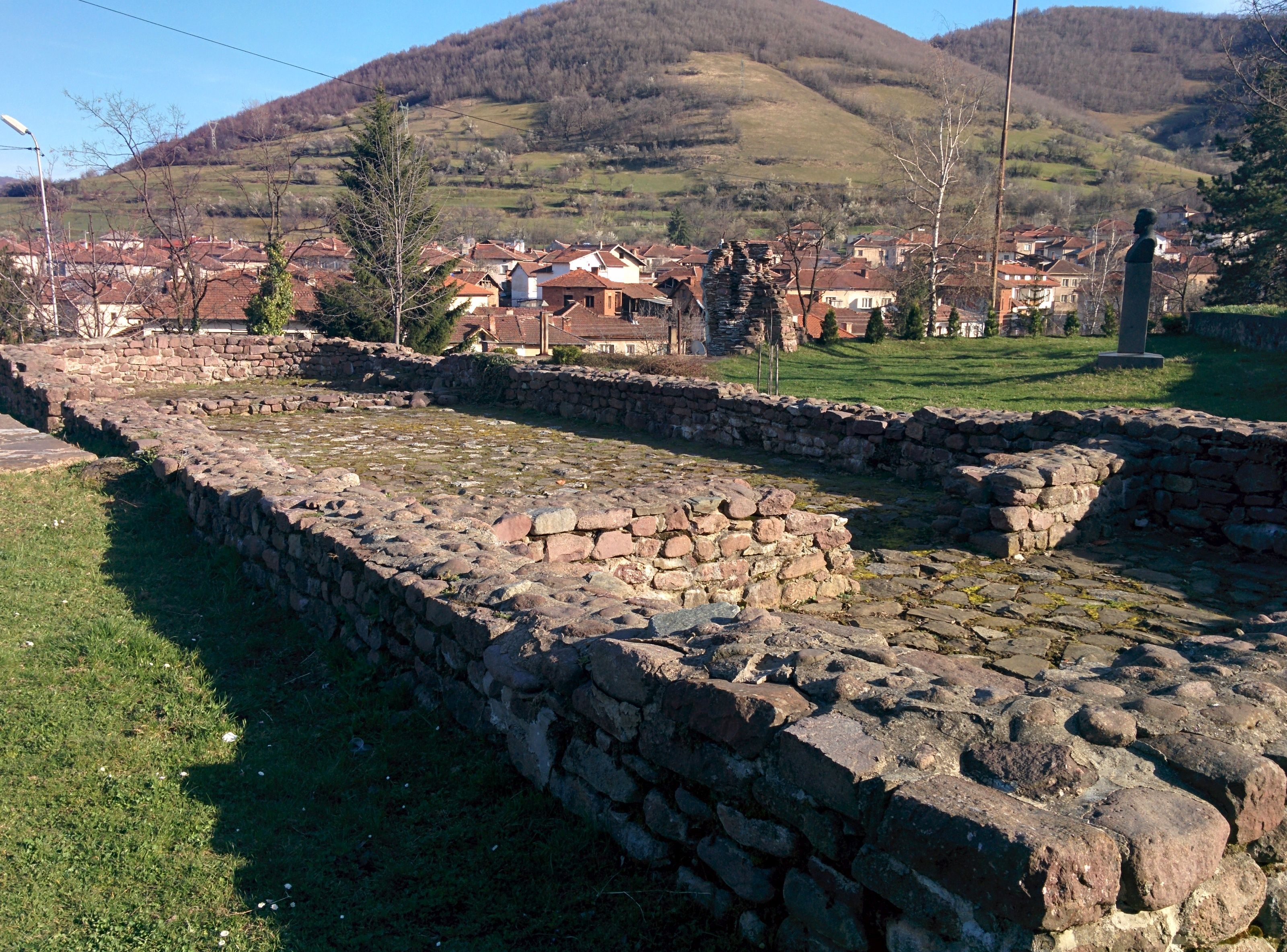 Basilica "Santa Maria", Town of Chiprovtsi, Chiprovtsi Municipality, Montana Province, northwestern Bulgaria